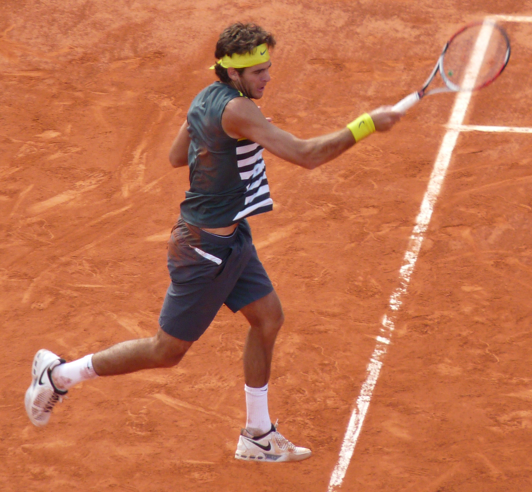 Juan Martín del Potro against Roger Federer in the 2009 French Open semifinals